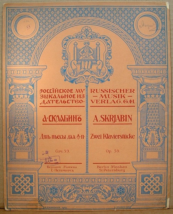 Bilibin, Ivan) Scriabin, Alexander Sheet Music DVE P'ESY (Op. 59) Berlin/Moscow/St. Petersburg: RMI, [c. 1909] Music by Aleksandr Skriabin. Cover by Jean Bilibine. Folio (13-1/4" x 10-1/2") softcover.